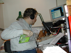 The technique of "Helsingørkanalen" in Denmark